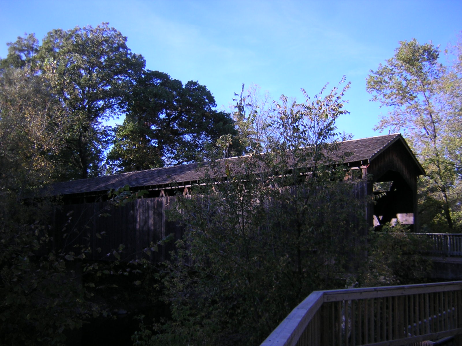 A scene from Ada, Michigan. Ada Township is a civil township of Kent County in the U.S. state of Michigan. As of the 2000 census, the township population was 9,882. The unincorporated community of Ada is located within the township on M-21 twelve miles east of Grand Rapids. Ada is the corporate home of Alticor and its subsidiary companies Quixtar and Amway. This image is of the Ada Covered Bridge across the Thornapple River just S of where it enters the Grand River just S of M-21. The bridge is on the List of Registered Historic Places in Kent County. Specifically, this image is of bridge from the upstream side.